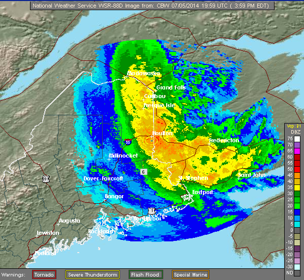 Radar image of the rain associated with the post-tropical Hurricane Arthur over Maine and the Canadian Maritimes.